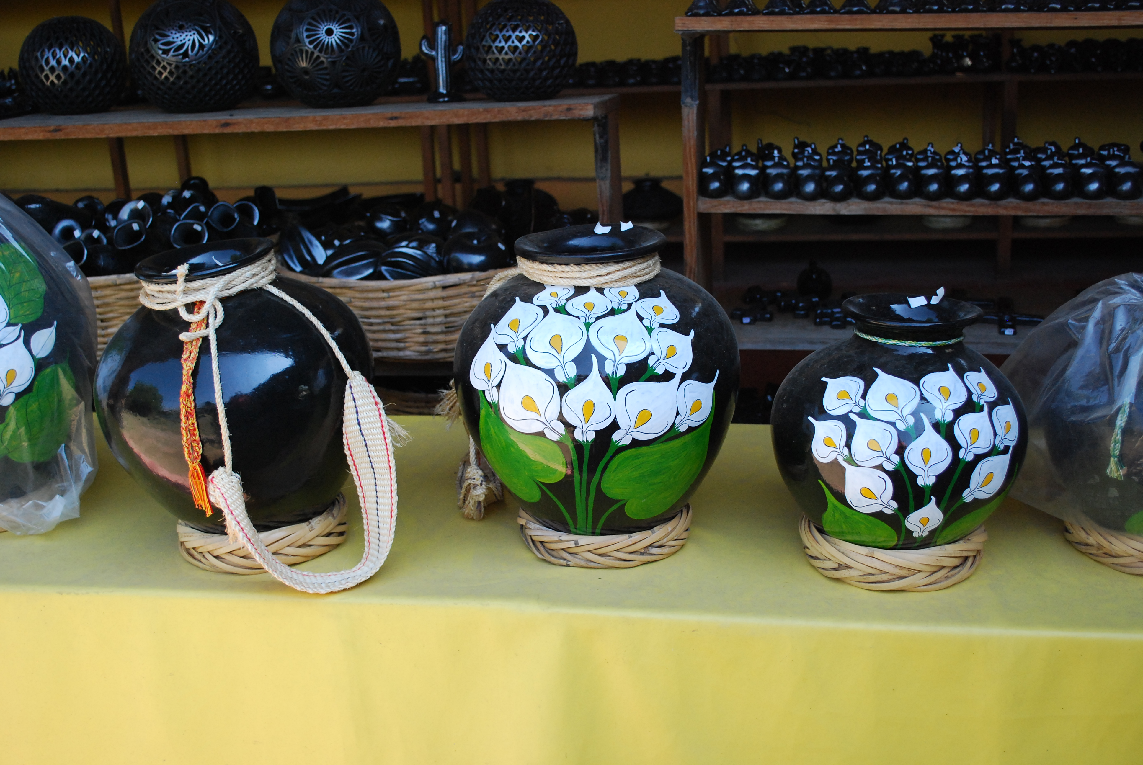 Small cantaro jars one painted at the Doña Rosa Workshop in San Bartolo Coyotepec, Oaxaca, Mexico